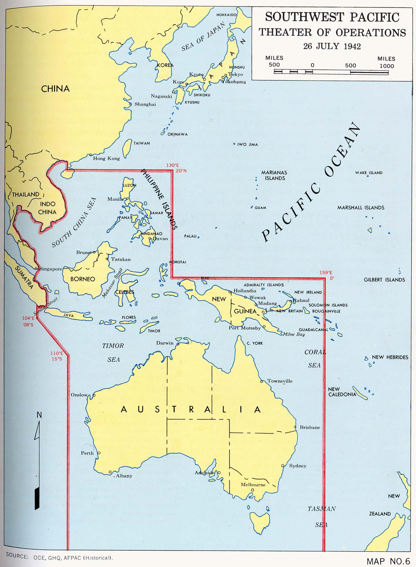 Southwest Pacific Area 1942